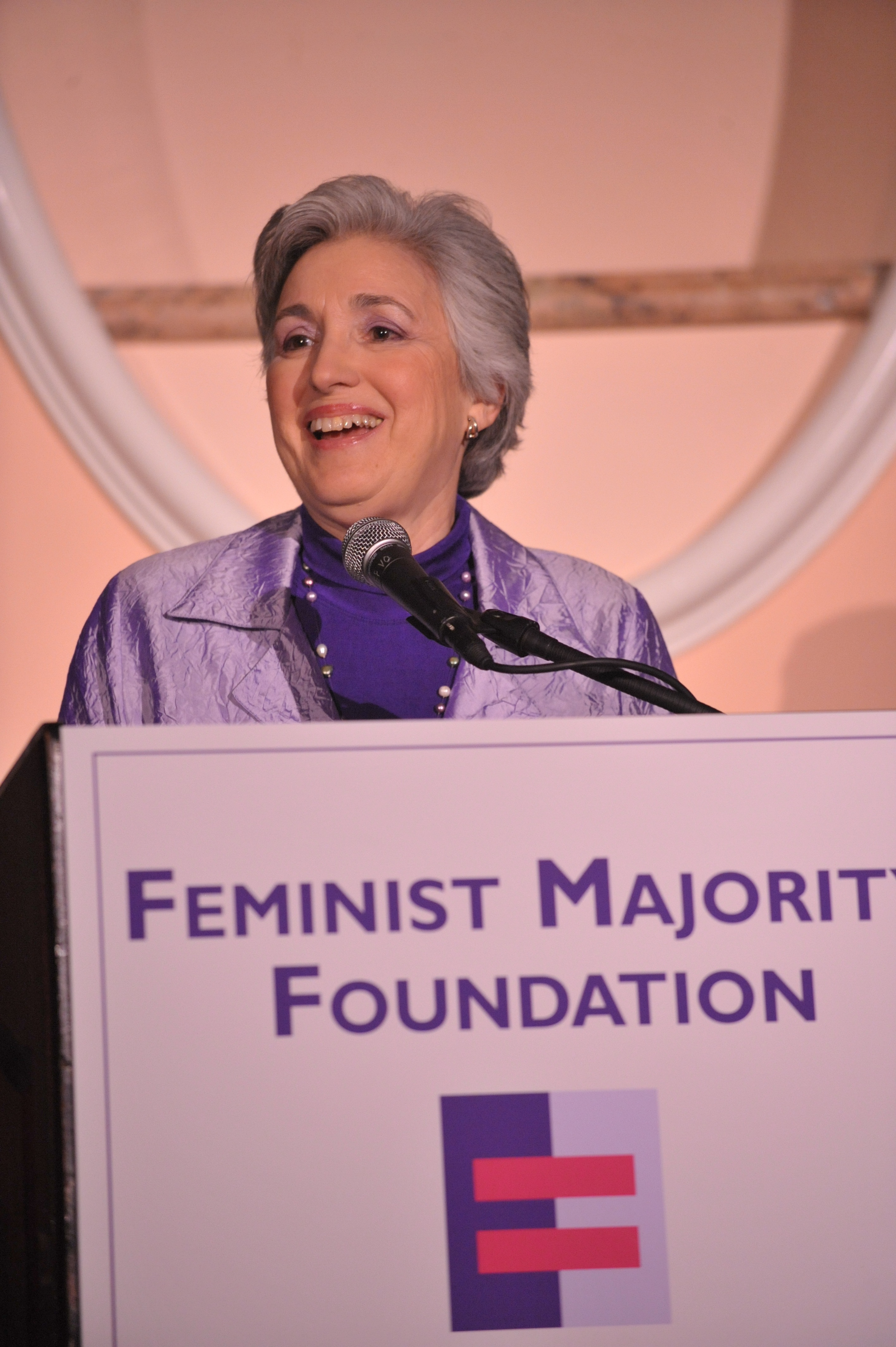 Eleanor Smeal speaking at a Feminist Majority Foundation event in 2009.